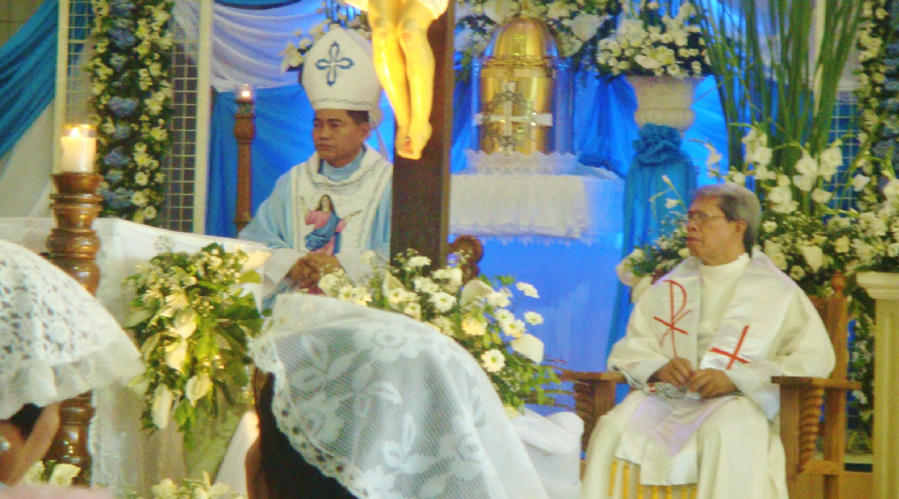 Pontifical Concelebrated Mass during the town's feast day on December 15, 2012 held at the Immaculate Conception Parish, Sogod, Southern Leyte.